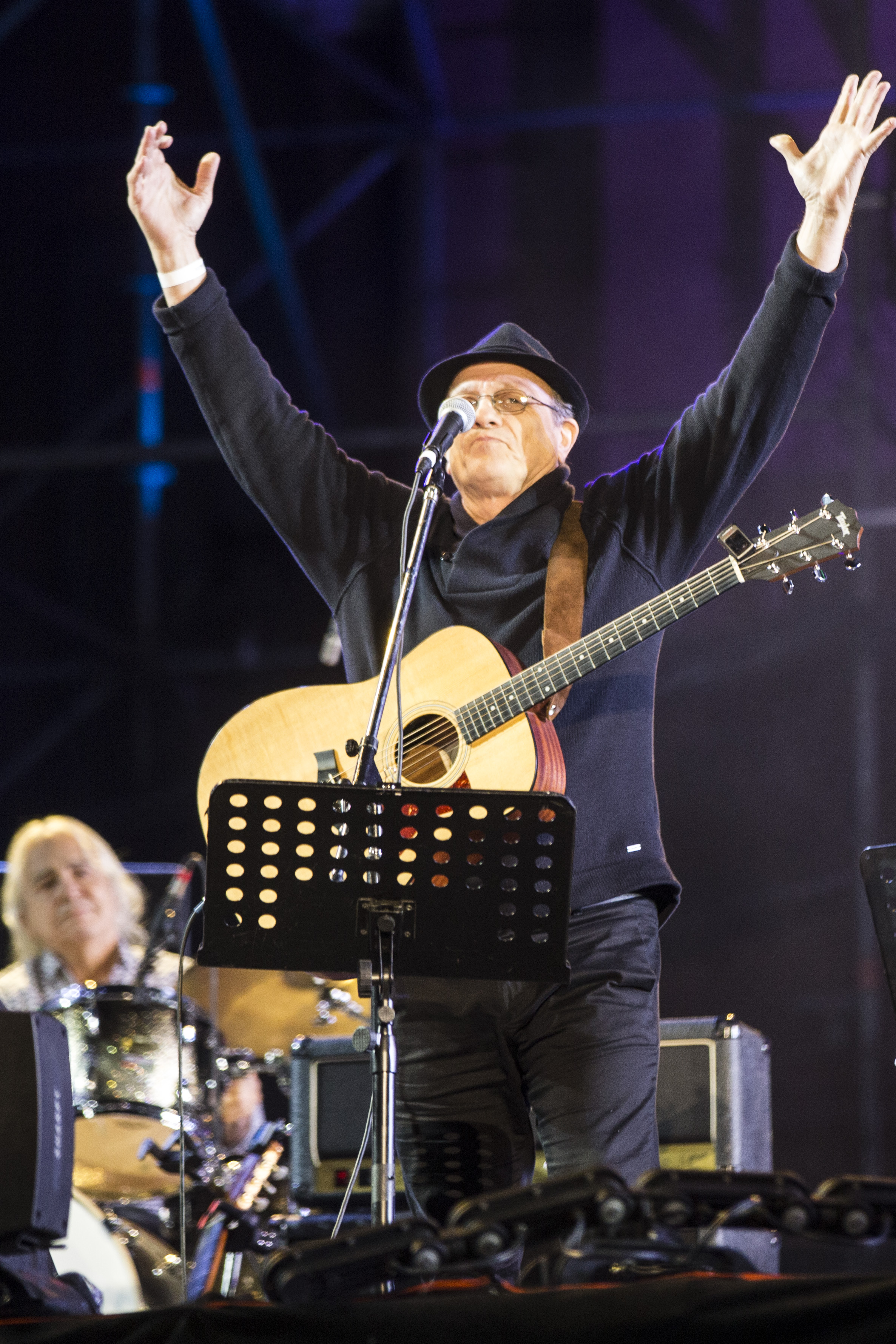 Buenos Aires, 25 de Mayo de 2015 - La presidenta Cristina Fernández de Kirchner, habló para todos los argentinos desde la Casa Rosada, en el marco de los festejos por el nuevo aniversario de la Revolución de Mayo, bajo el lema “El mismo Sol, la misma Patria”.-Foto: Mauro Rico / Ministerio de Cultura de la Nación.